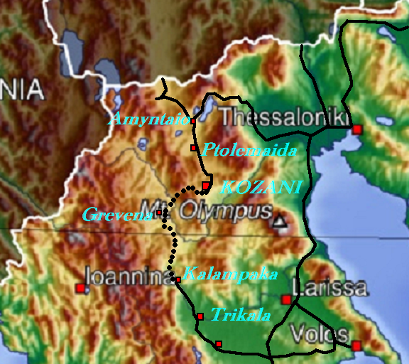 Map of railways in Thessaly and Western Macedonia, Greece